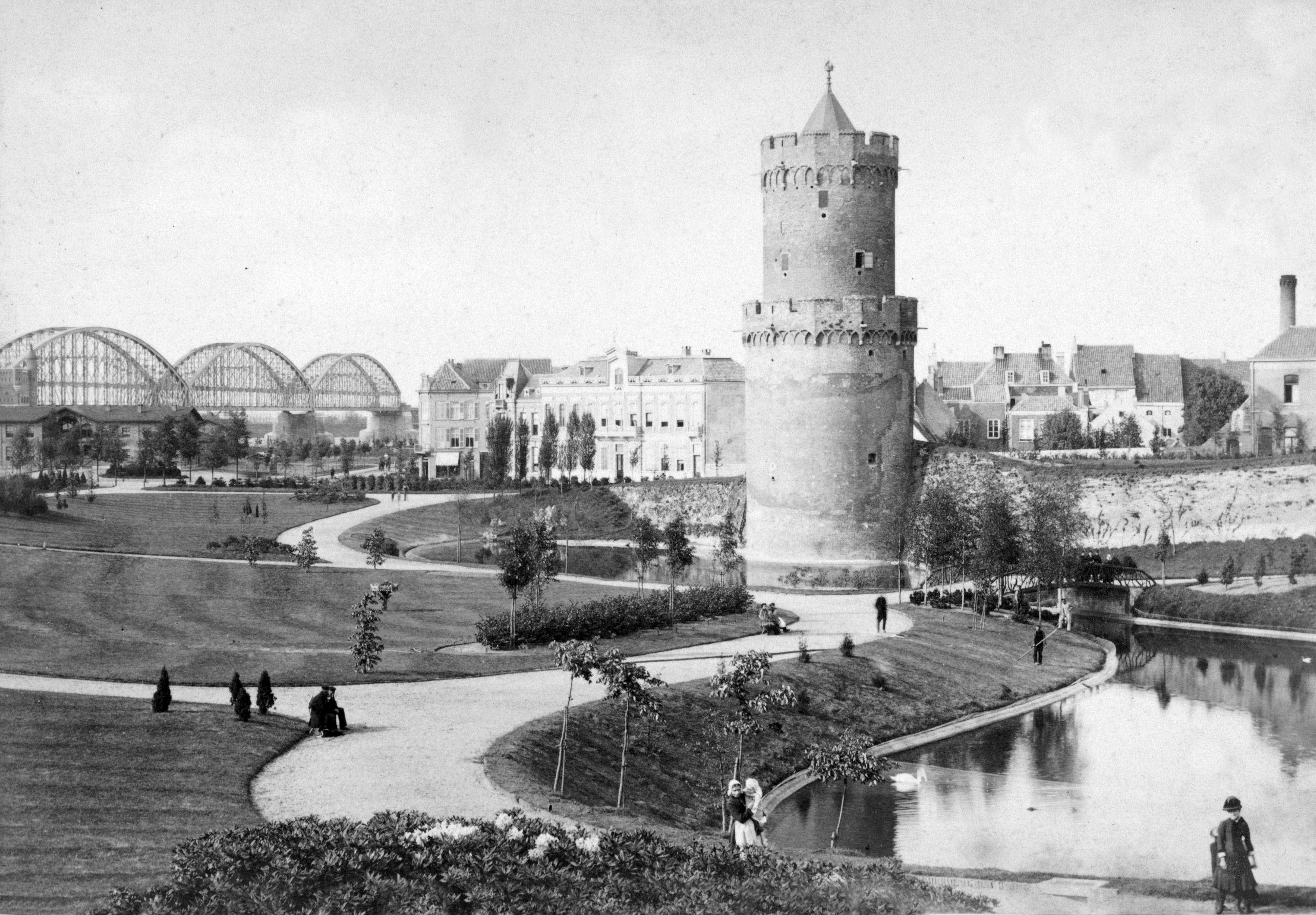 Kronenburgerpark Nijmegen, Wilhelm Ivens, ca. 1885 - ca. 1890 Rijksmuseum